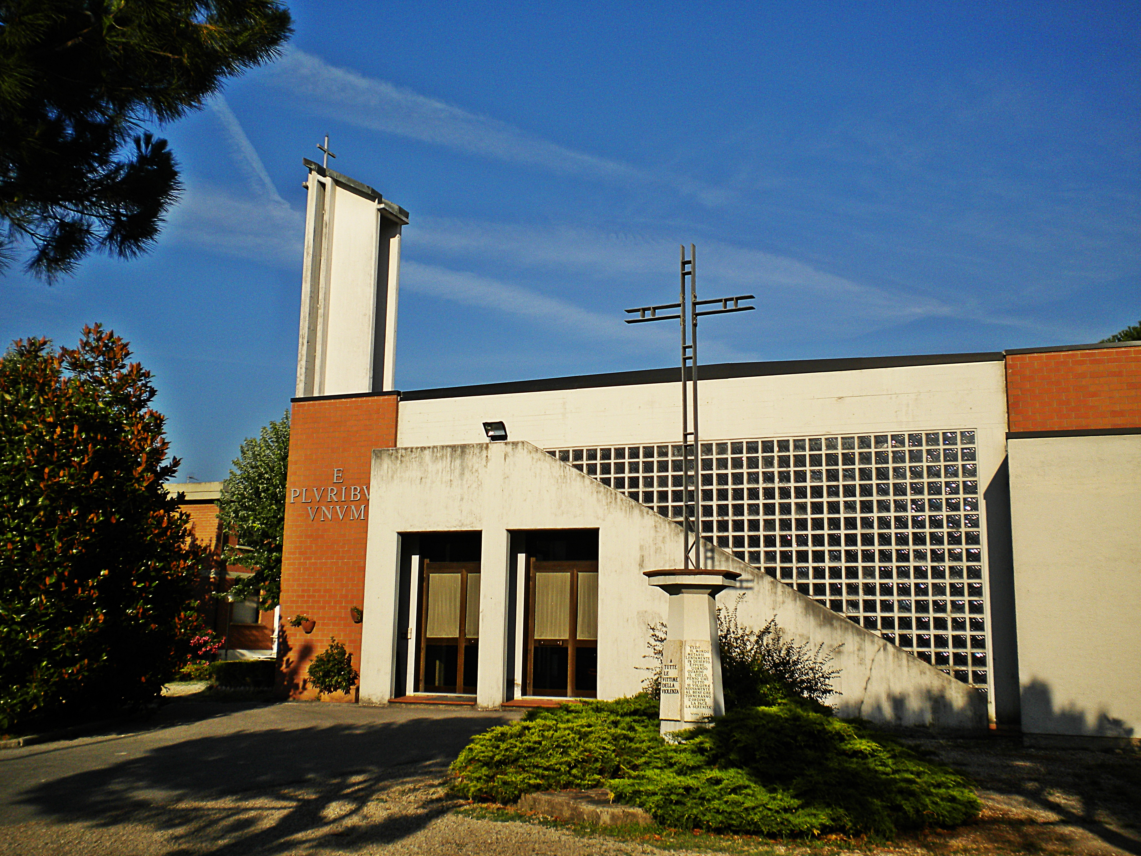 outside